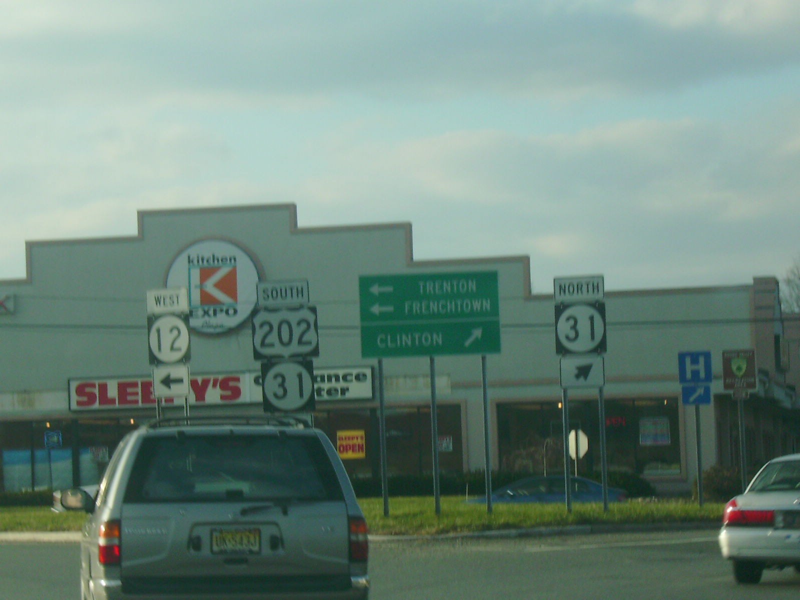 The view of the Flemington Circle from U.S. Route 202 heading southbound into New Jersey Route 12 and New Jersey Route 31. This circle is proposed to be renovated into a roundabout.